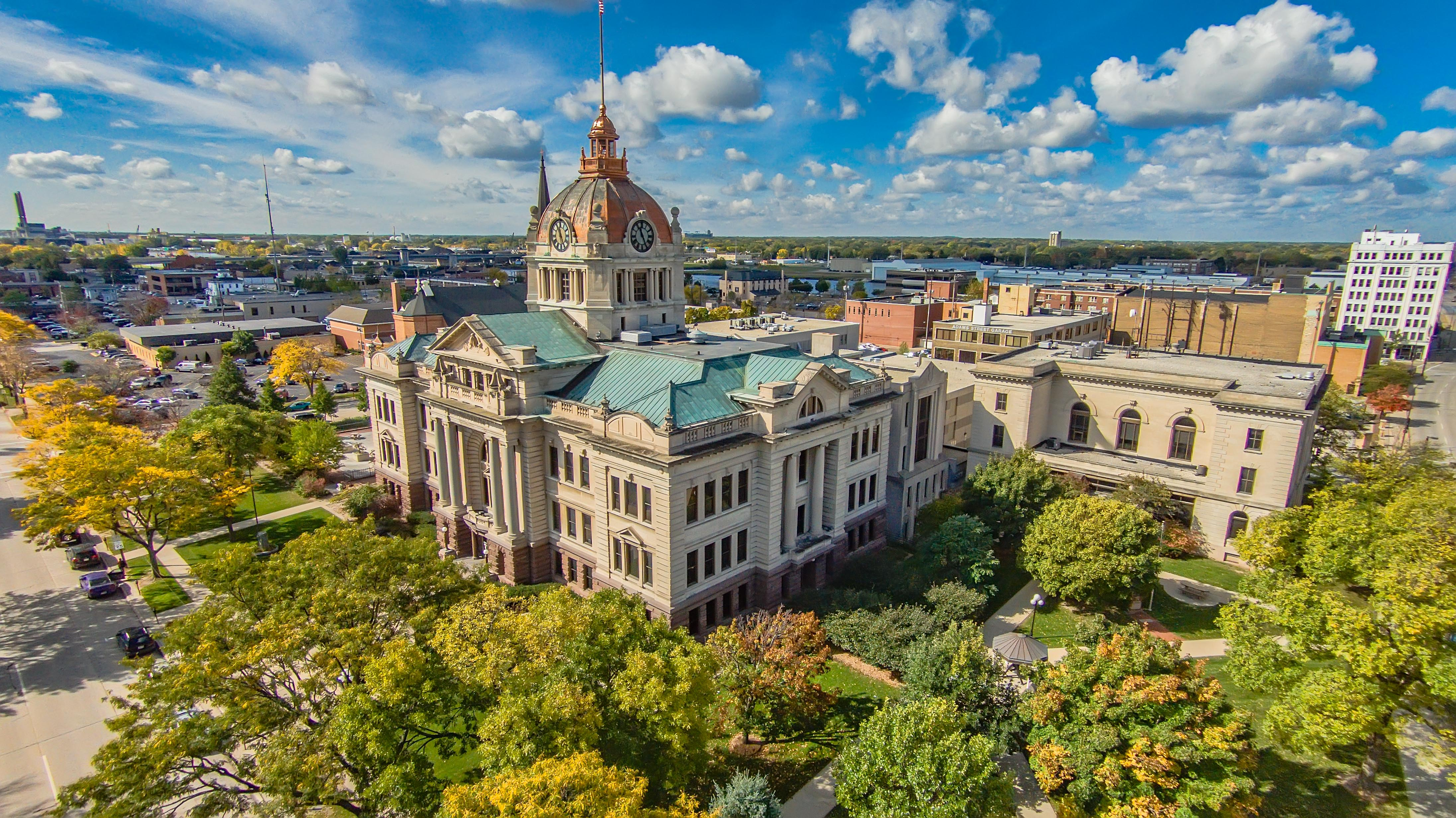 Brown County Courthouse as the leaves begin to change color.